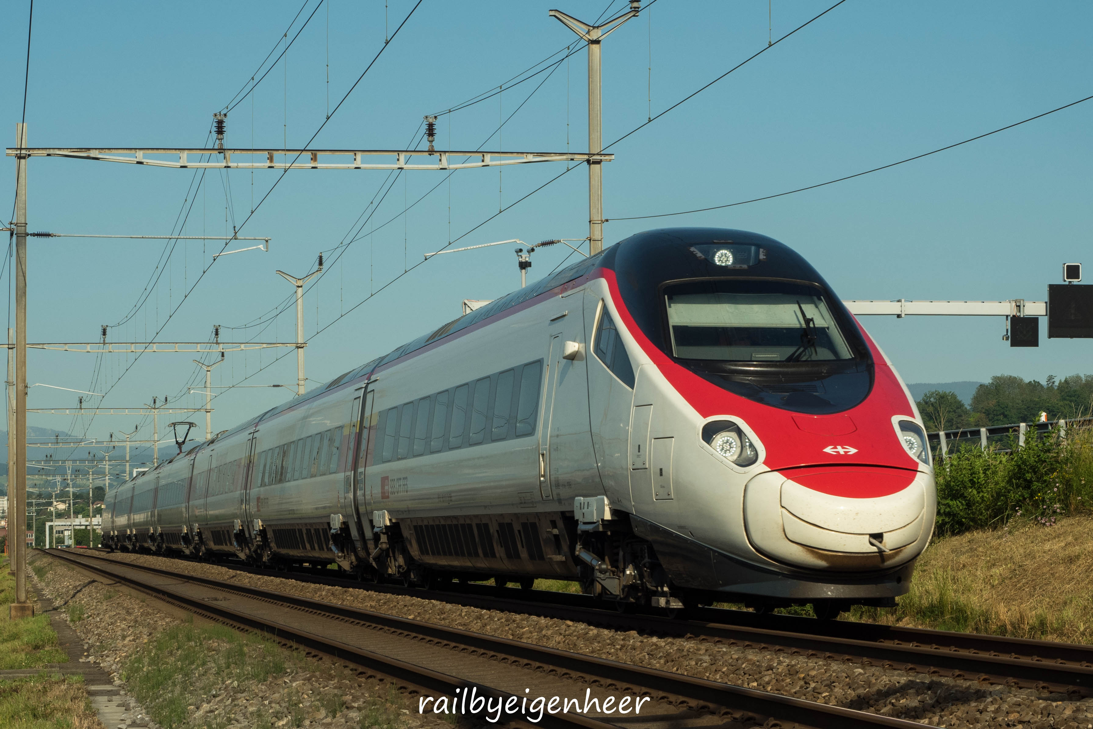 Denges 24.06.2016